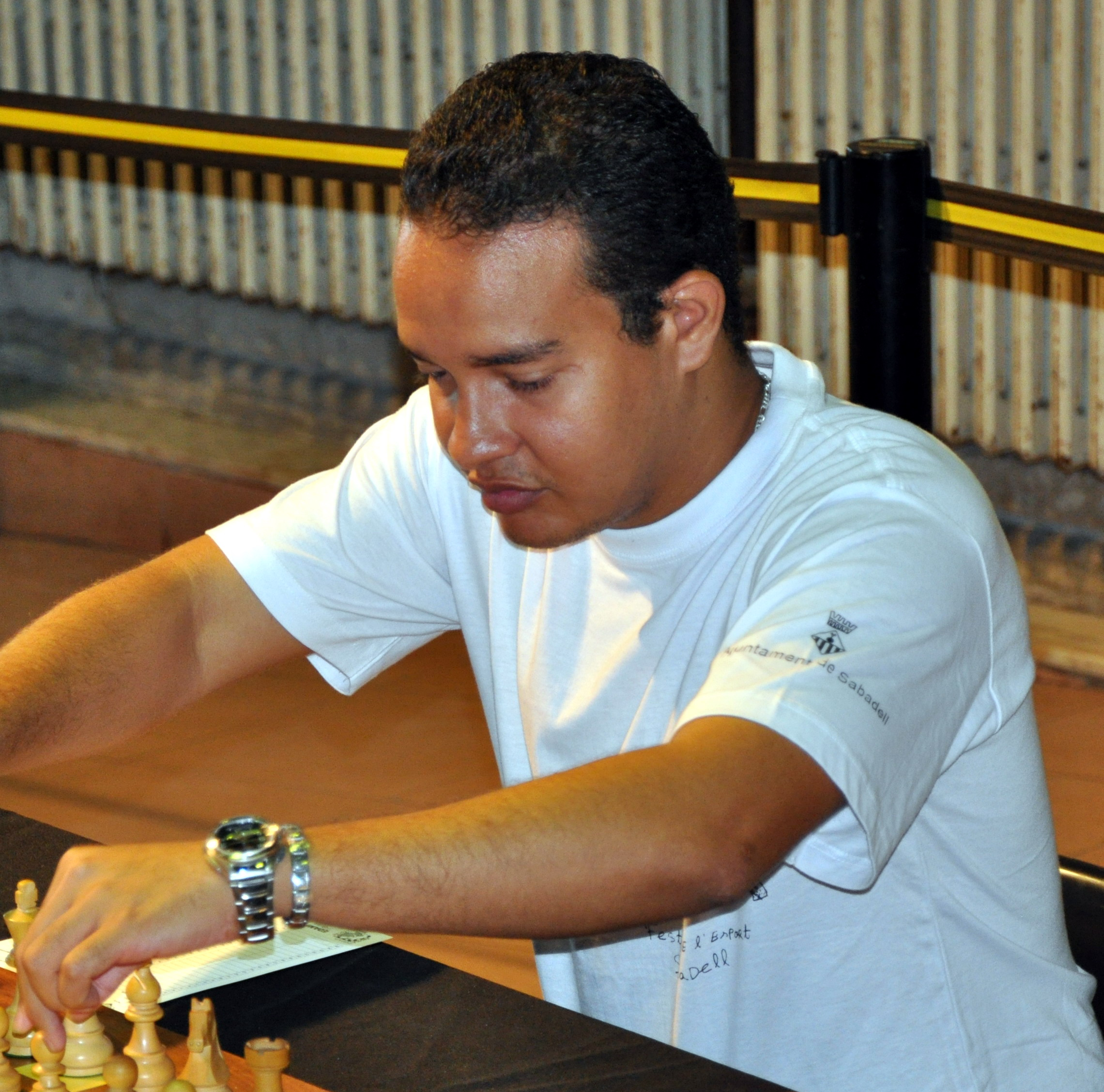 GM Lelys Stanley Martinez Duany (Cuba), XII Open Internacional de Sants, Hostafrancs i la Bordeta Grup A, Barcelona 2010